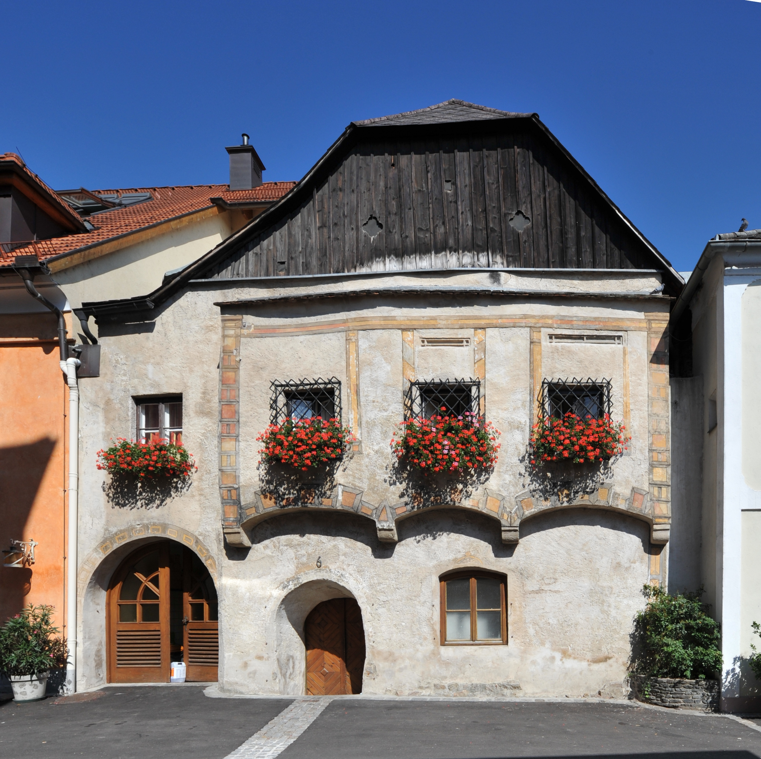 The making of this work was supported by Wikimedia Austria. For other files made with the support of Wikimedia Austria, please see the category Supported by Wikimedia Österreich. Emmersdorf an der Donau 6, Wohnhaus